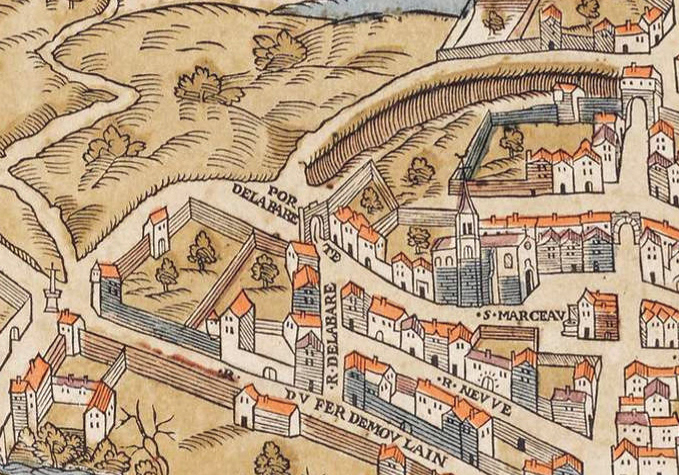 Saint-Marcel church on the plan of Truschet and Hoyau (1550).